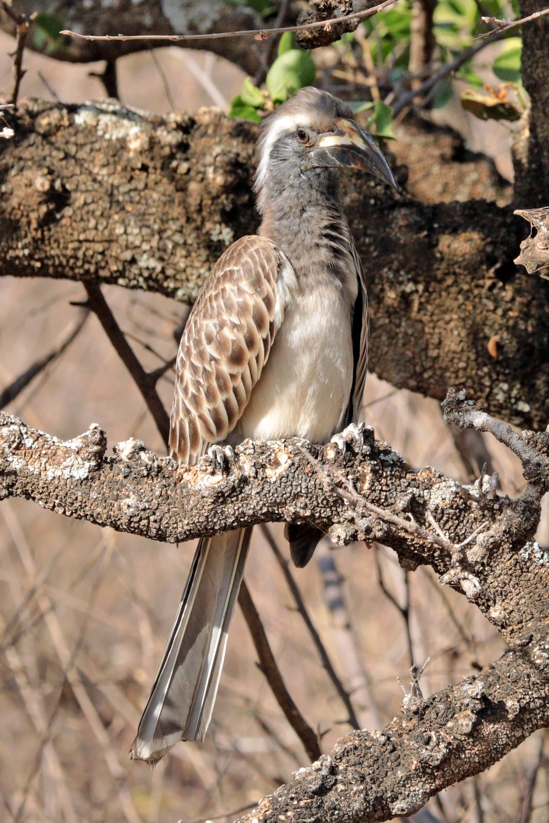 African grey hornbill (Tockus nasutus nasutus) immature, Awash National Park, Ethiopia